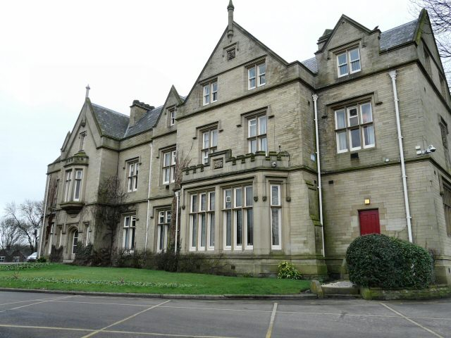 Ryecroft Hall. The side of Ryecroft Hall 1176906.